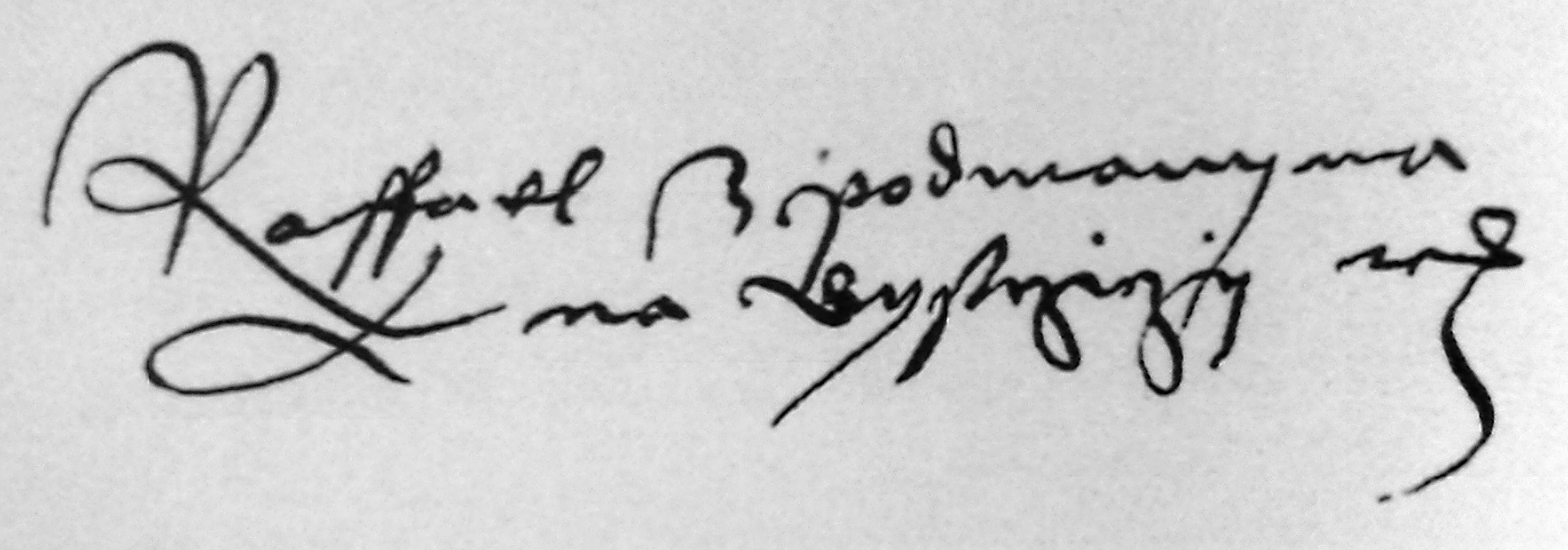 signature of Raffael Podmanitzky From 16th century